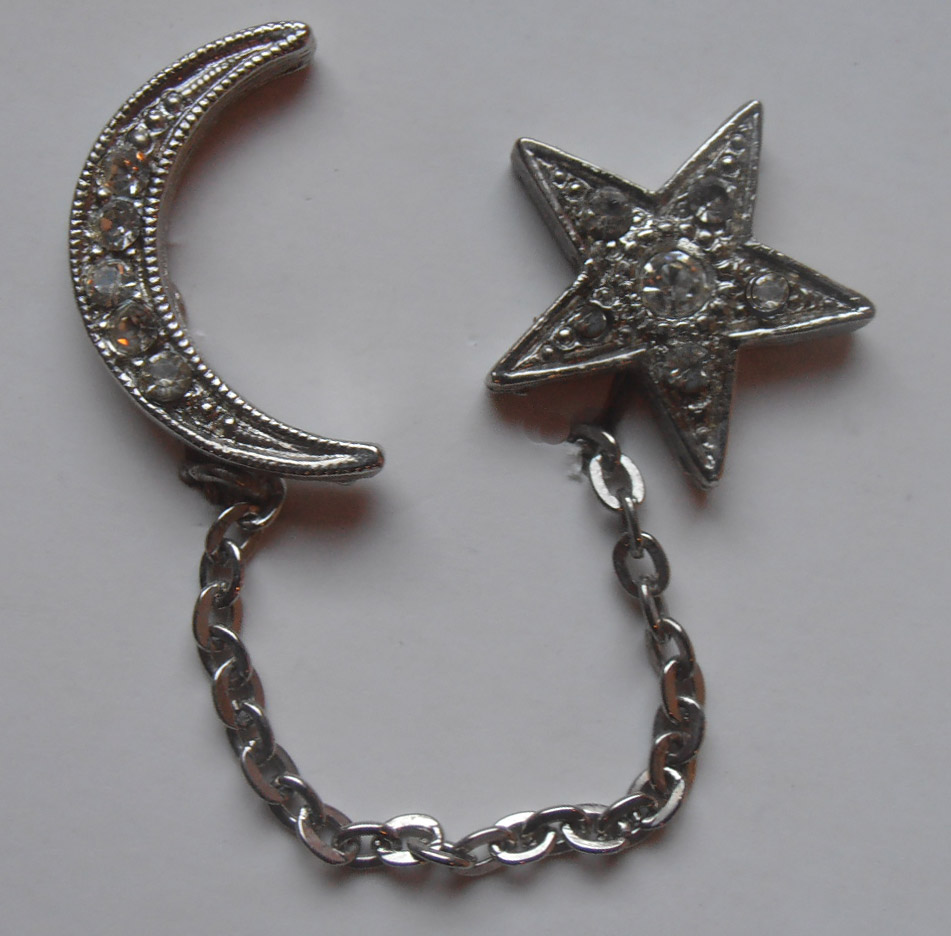 Costume jewelry in Star and crescent shape